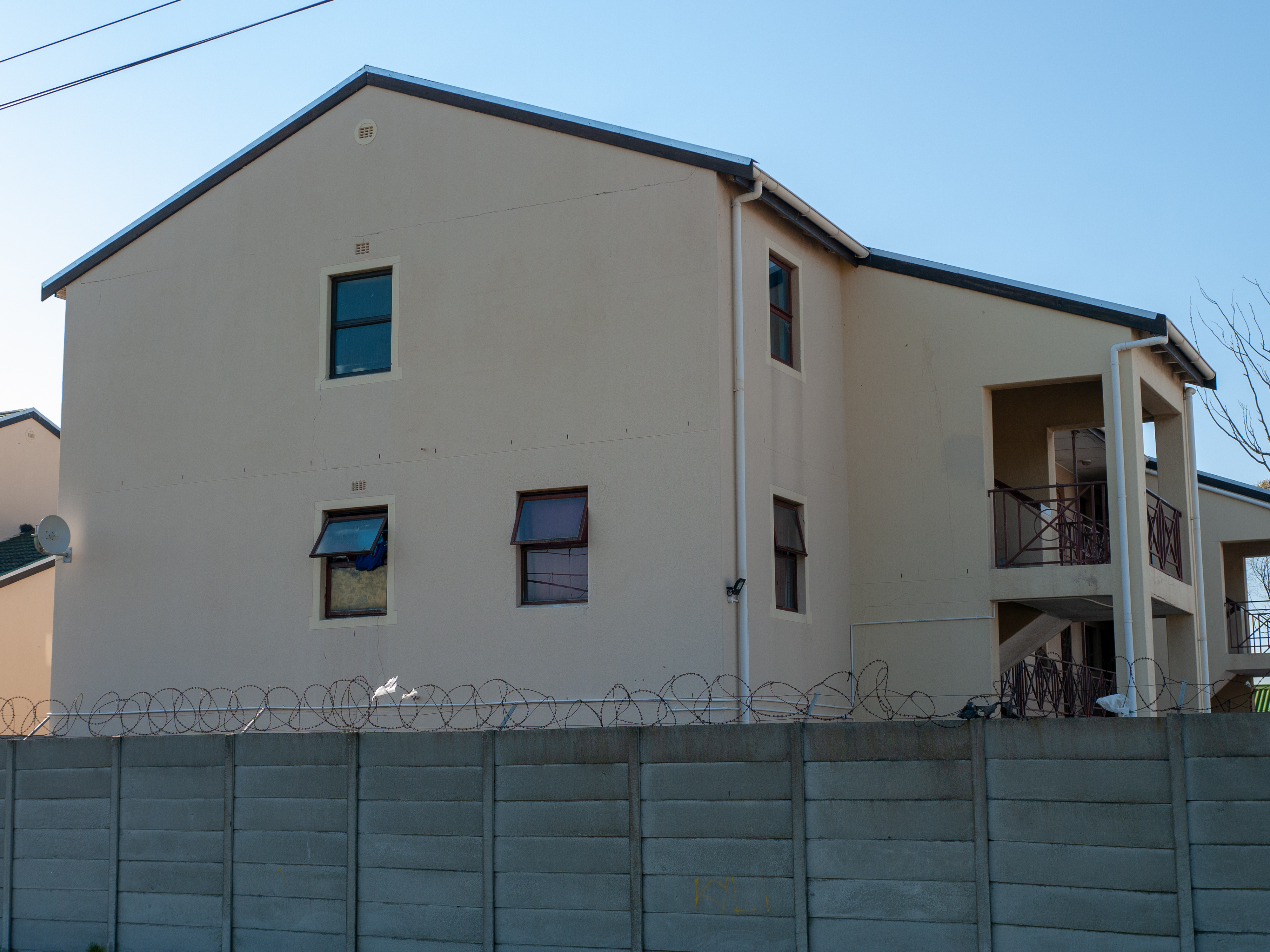 Gated apartment complex, seen from Metrorails Southern Line between Wittebome and Lakeside, Cape Town